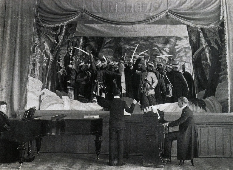 A Life for the Tsar, the Real School named after the House of Romanov. Novonikolayevsk (current Novosibirsk), Russian Empire.